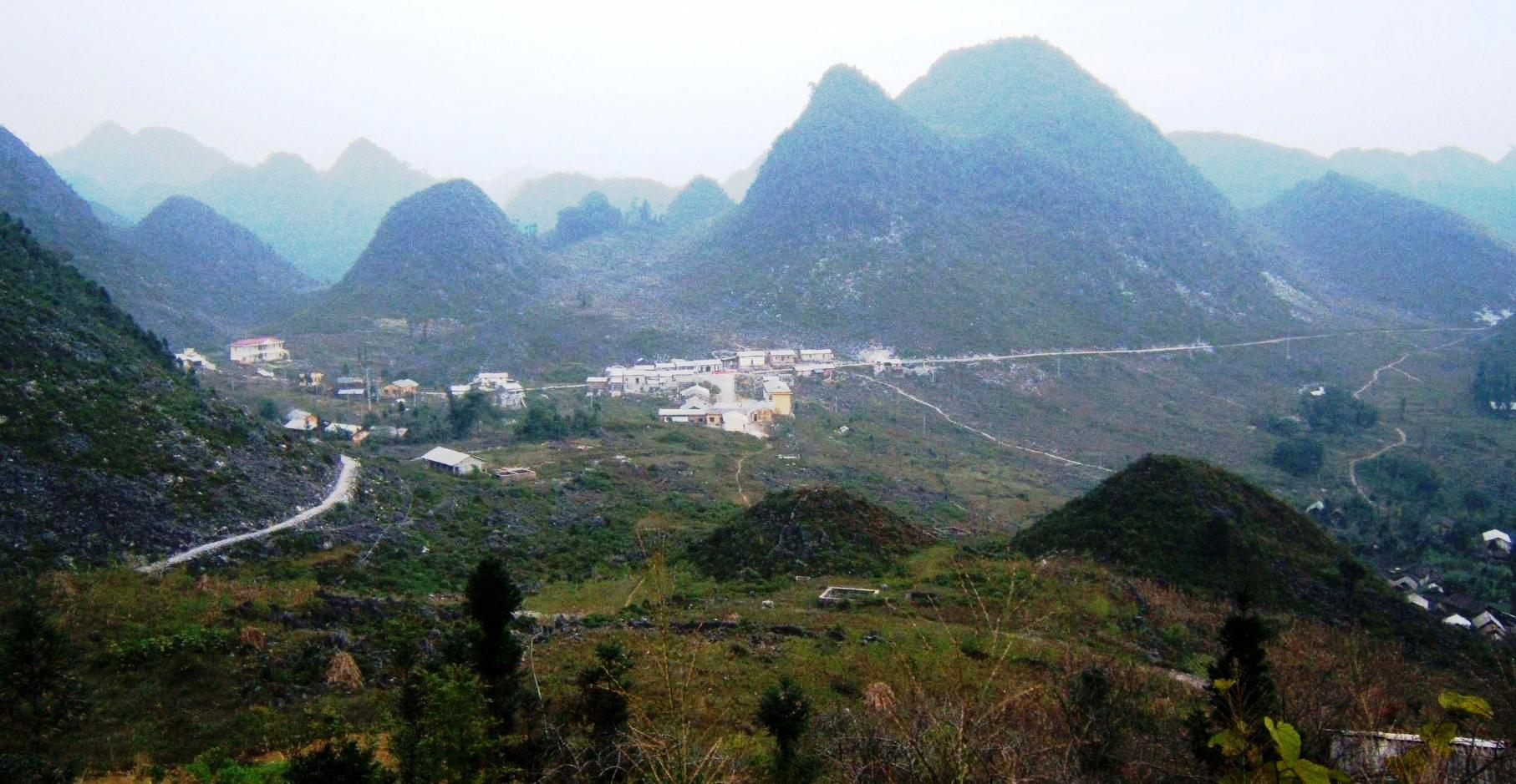 A look to the center of Sinh Lung commune, Dong Van district, Ha Giang province, Vietnam, 2005.